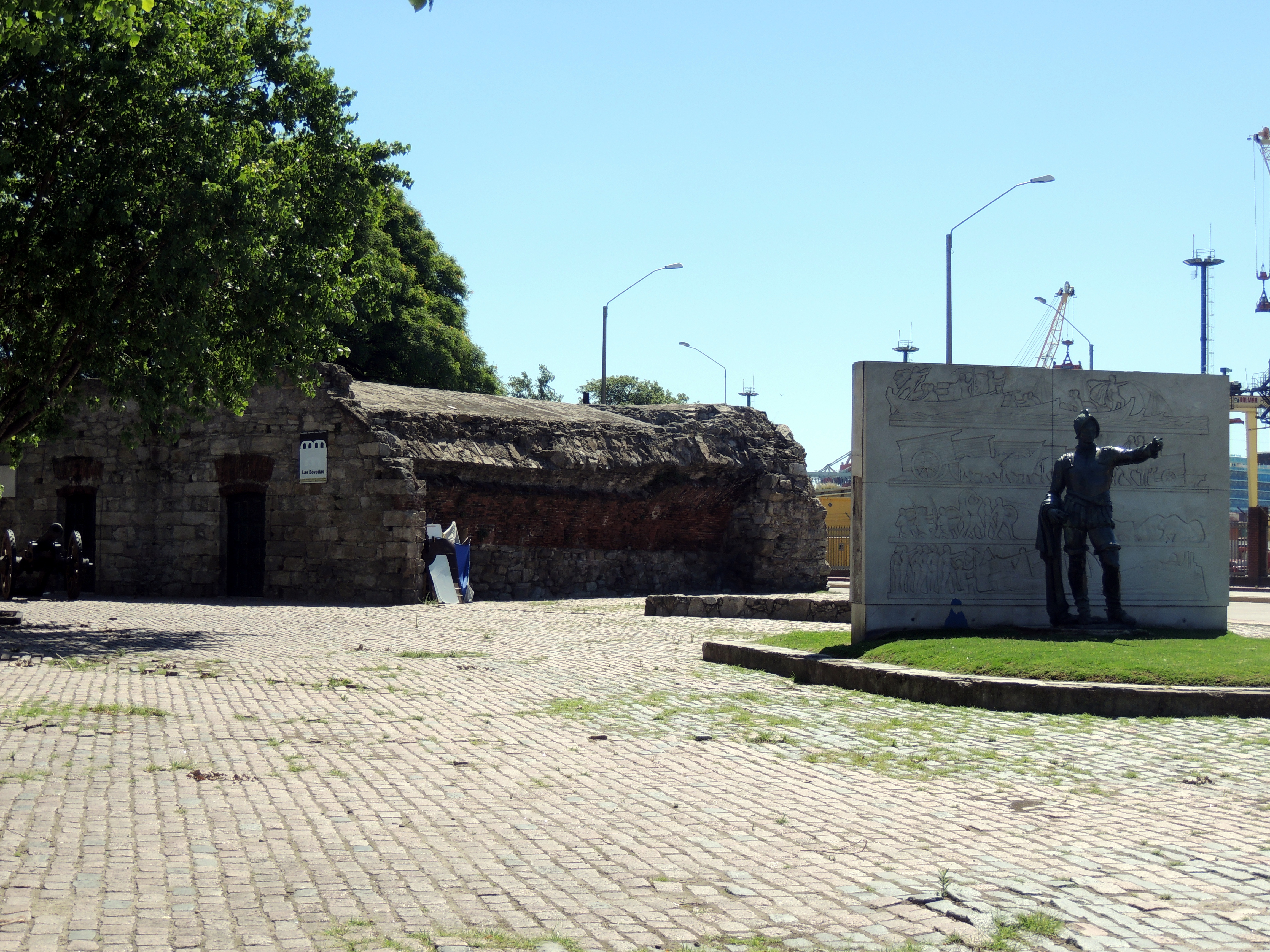 Las Bóvedas in Montevideo, Uruguay.